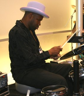 John Blackwell jamming at the Alesis booth during NAMM 2009.